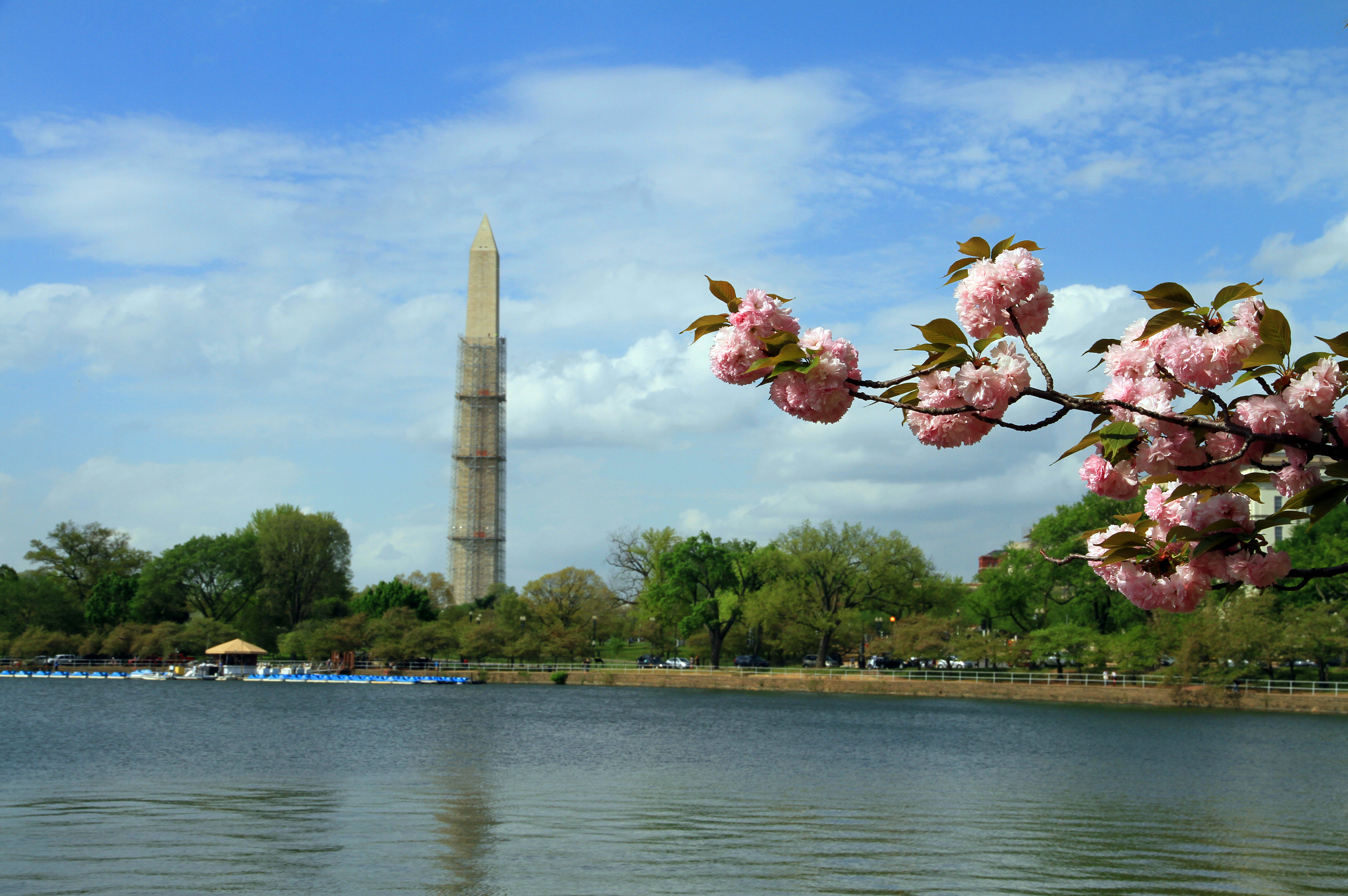 Tidal Basin